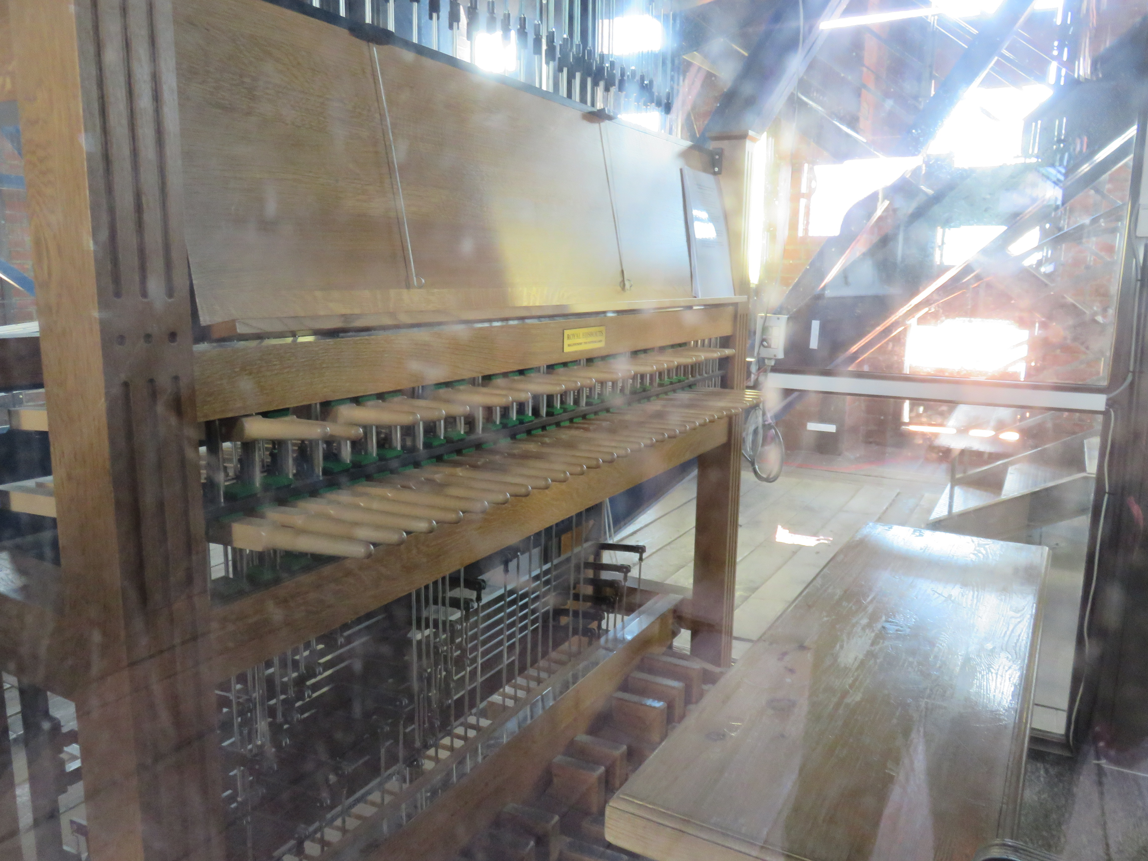 Play table of the Carillon of St. Catherine's Church in Gdansk.